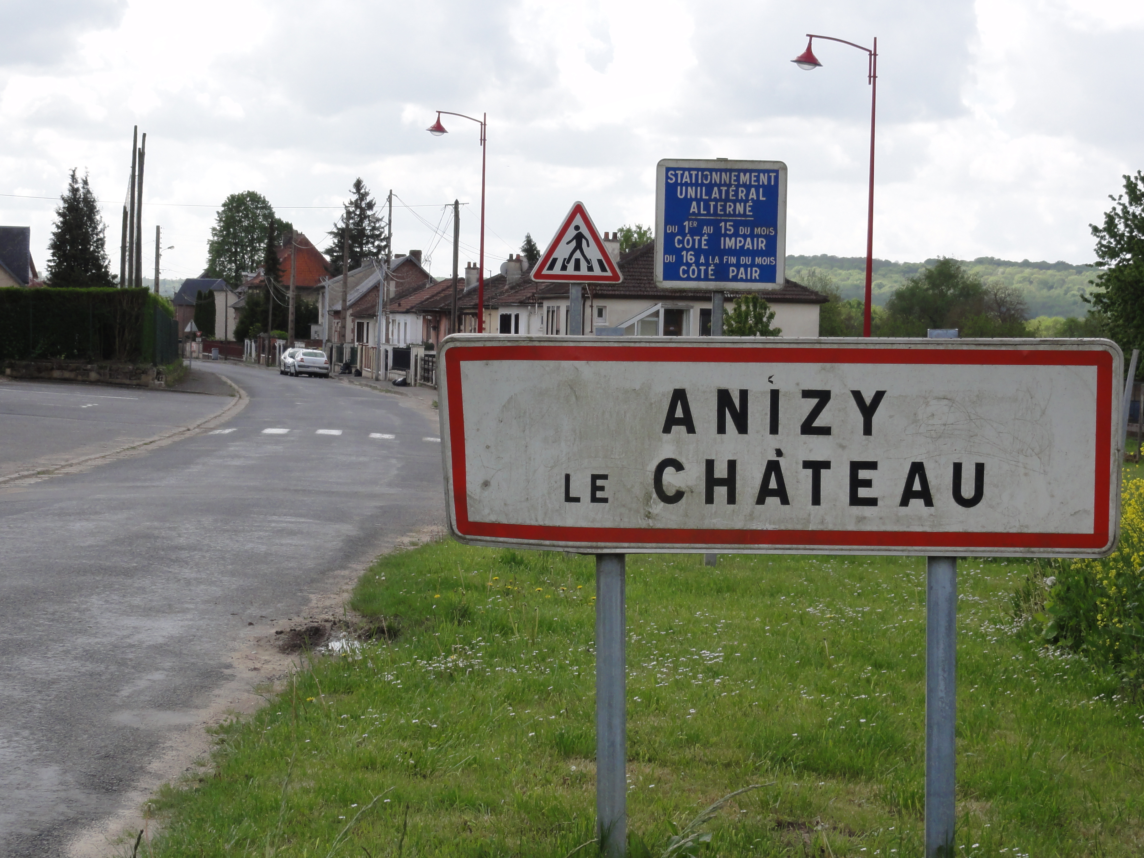 Anizy-le-Château (Aisne) city limit sign